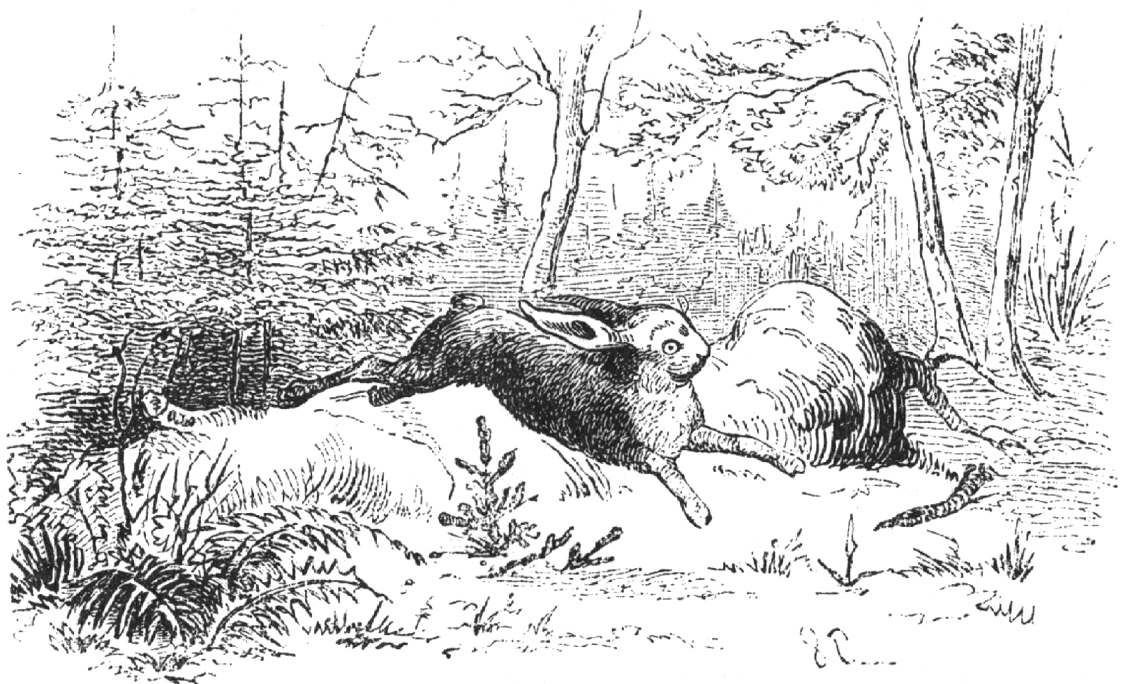 hare